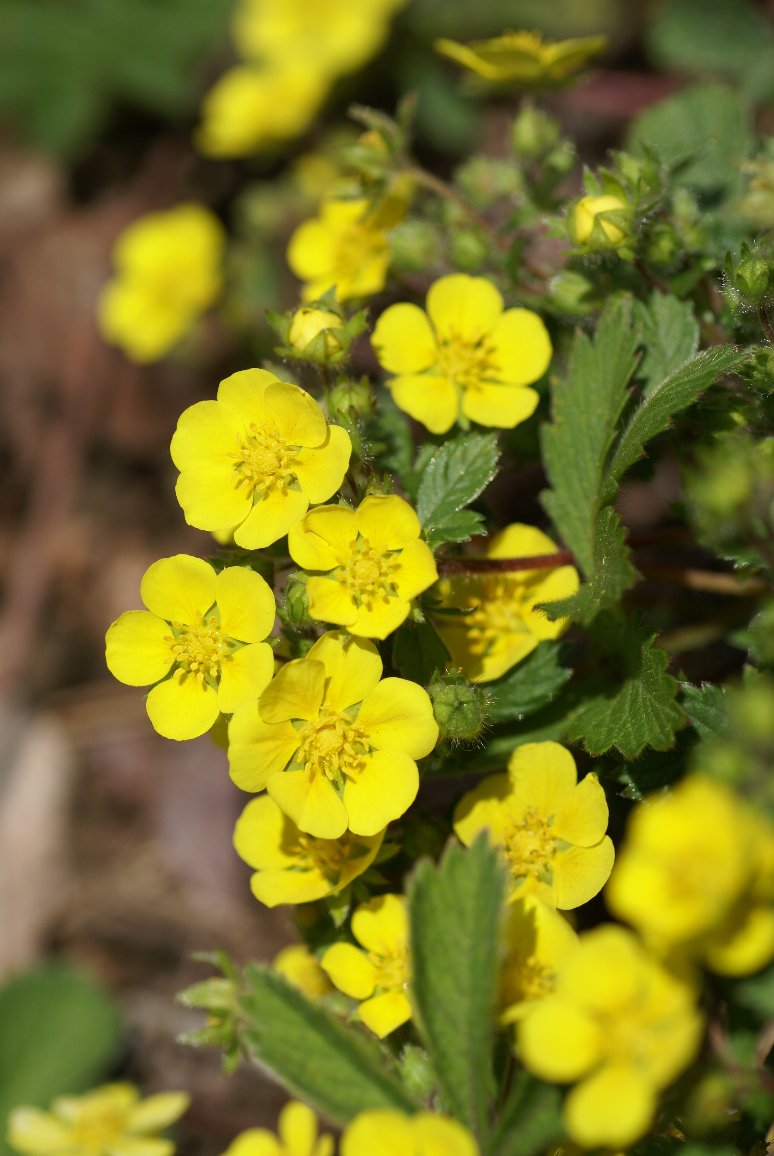 Plant subspecies Potentilla fragarioides major in Jindai Botanical Garden in Tokyo